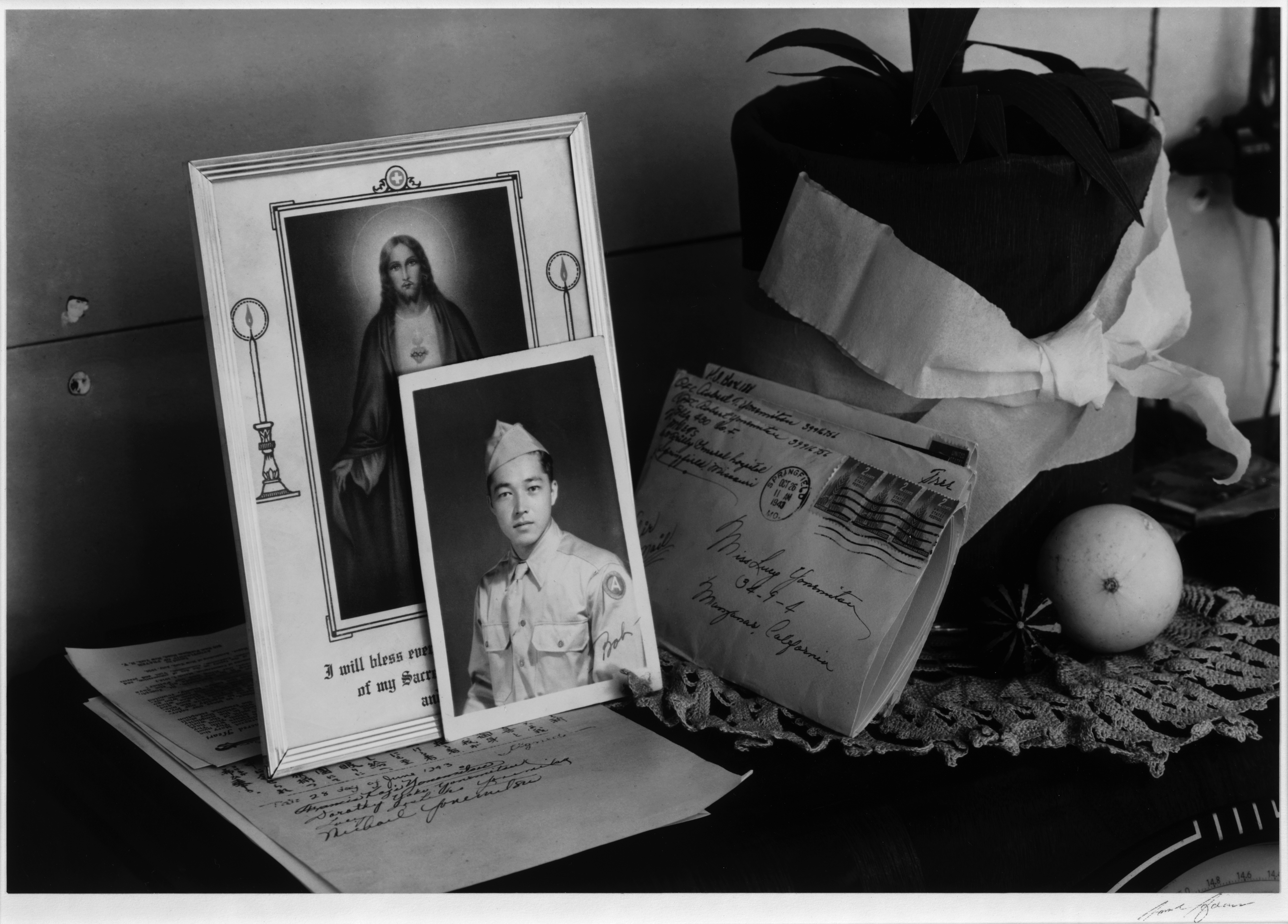 Autographed photograph, religious card, stamped envelopes, ornamental squash and a potted plant on doily on a table top.